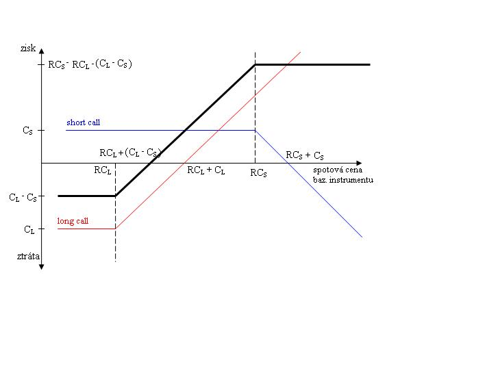 VERTICAL BULL CALL SPREAD